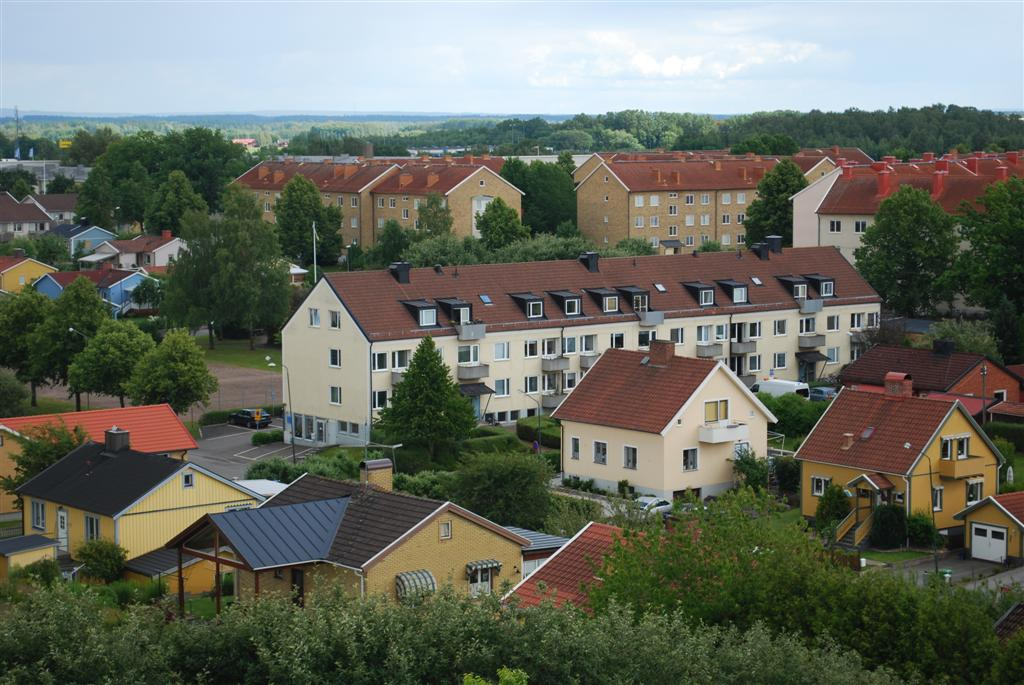 Photograph over Östermalm, Skövde